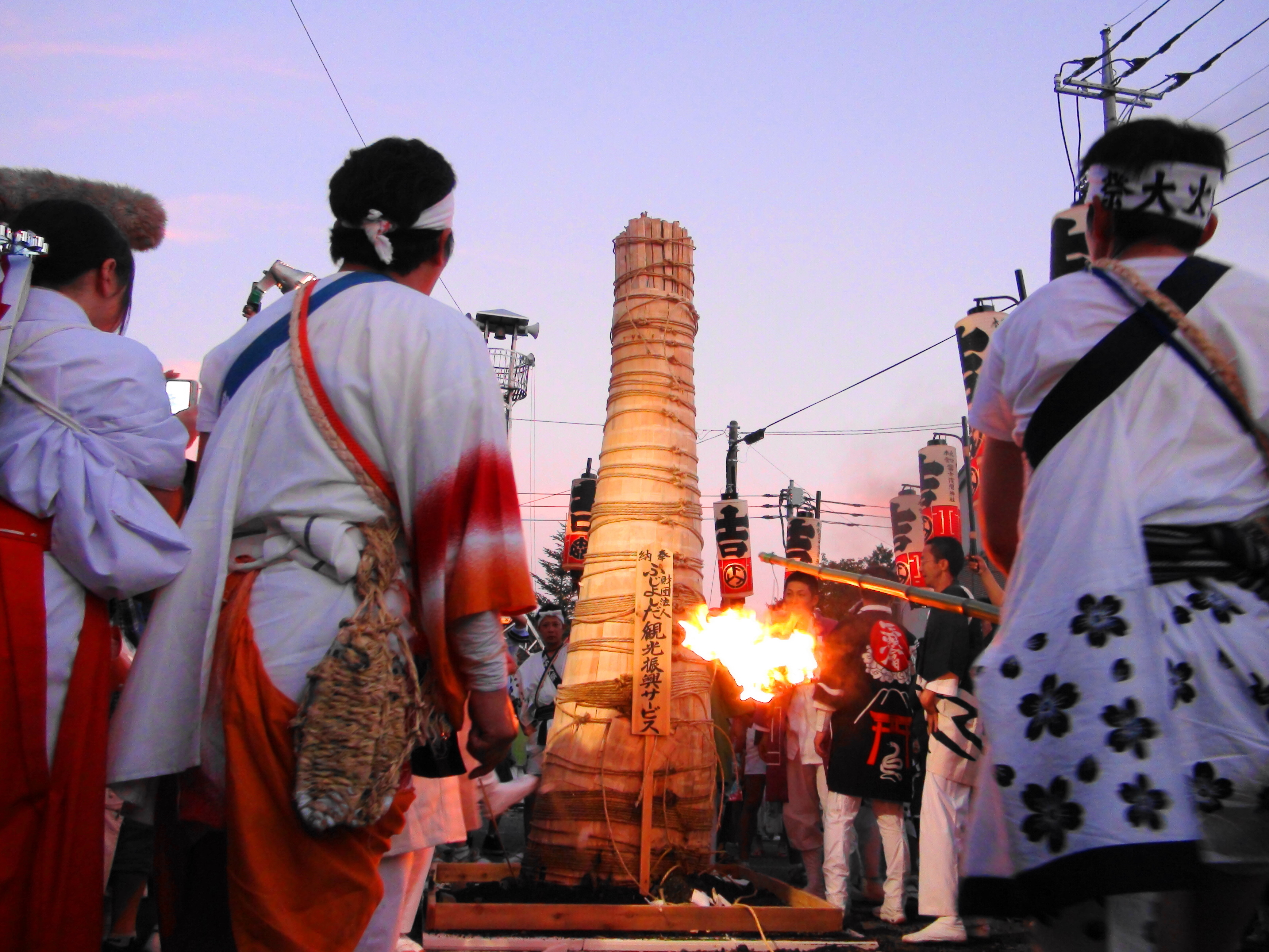 In the first torch ignition Otabisho, Yoshida Fire Festival